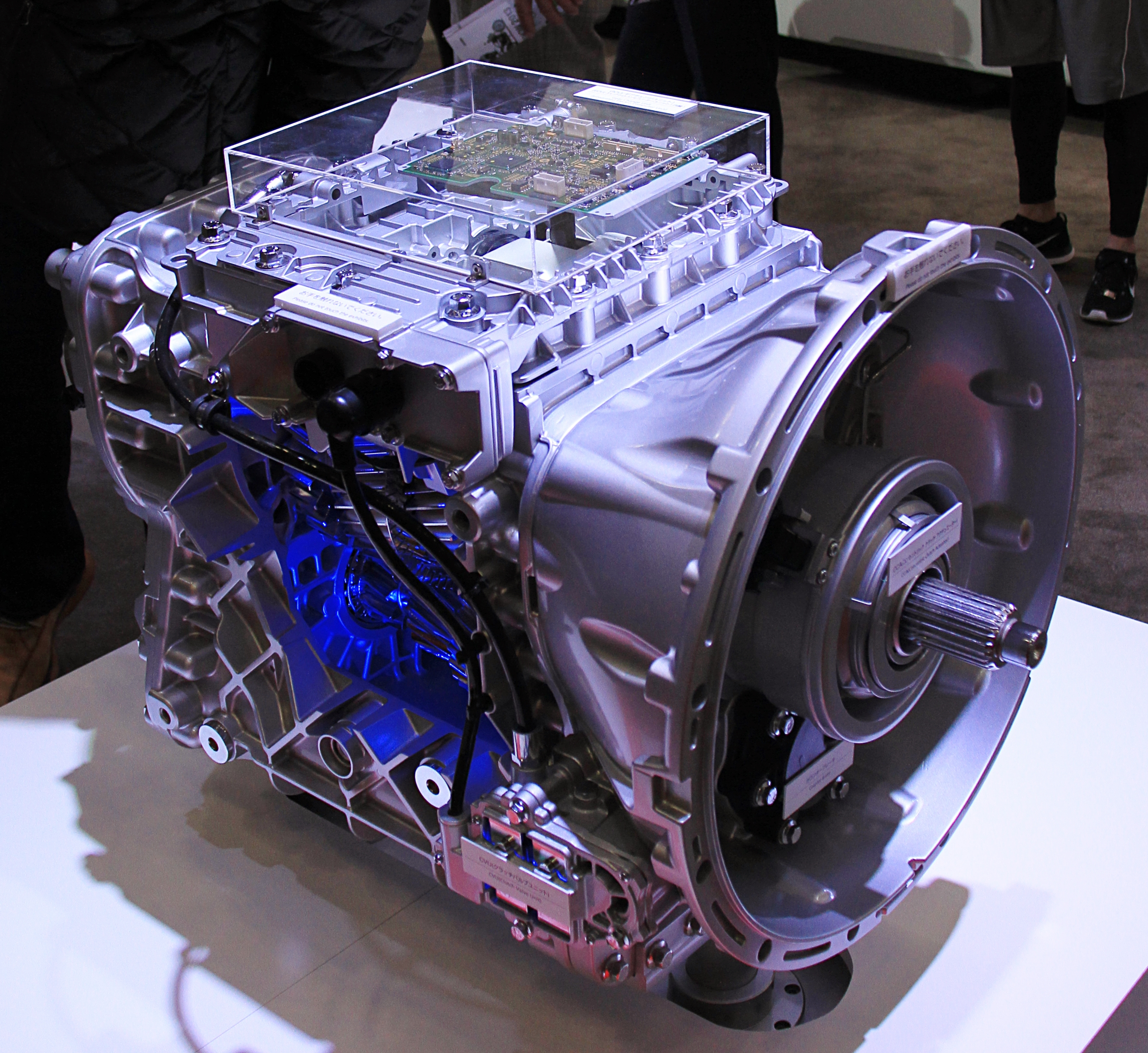 UD 6-speed AMT